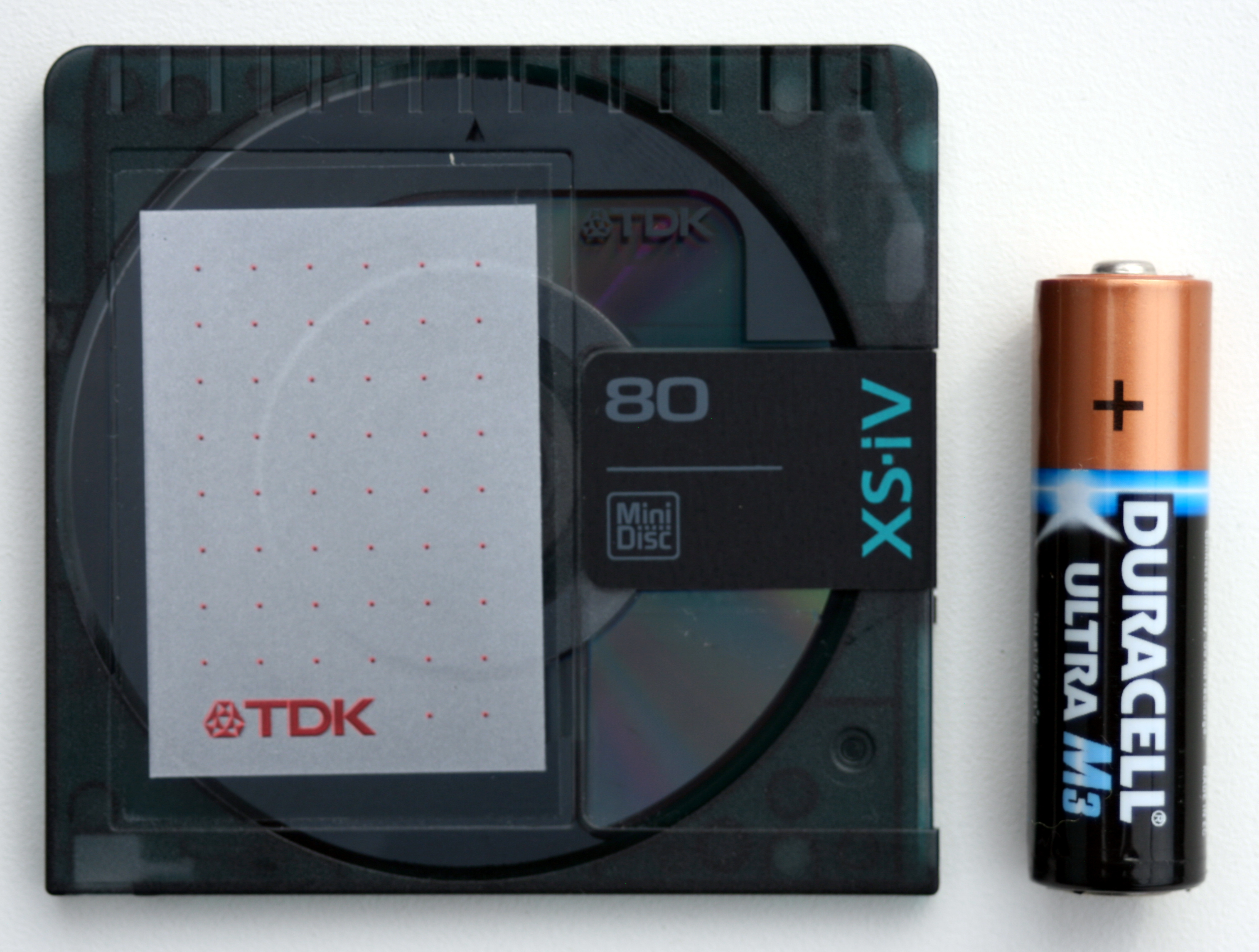 TDK 80min MiniDisc and Duracell Ultra M3.